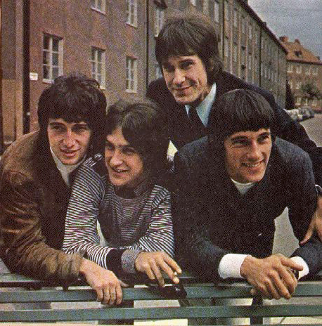 A promotional photo of British rock group The Kinks, taken in Stockholm, Sweden, ca. 2 September 1965 (see The Kinks: All Day and All of the Night : Day-By-Day Concerts, Recordings and Broadcasts, 1961-1996, p. 65). From left to right: Pete Quaife, Dave Davies, Ray Davies, Mick Avory (the band's lineup Feb 1964–June 1966, Nov 1966–Mar 1969).